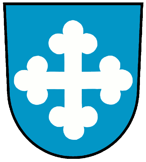 Coat of arms of Neuzelle